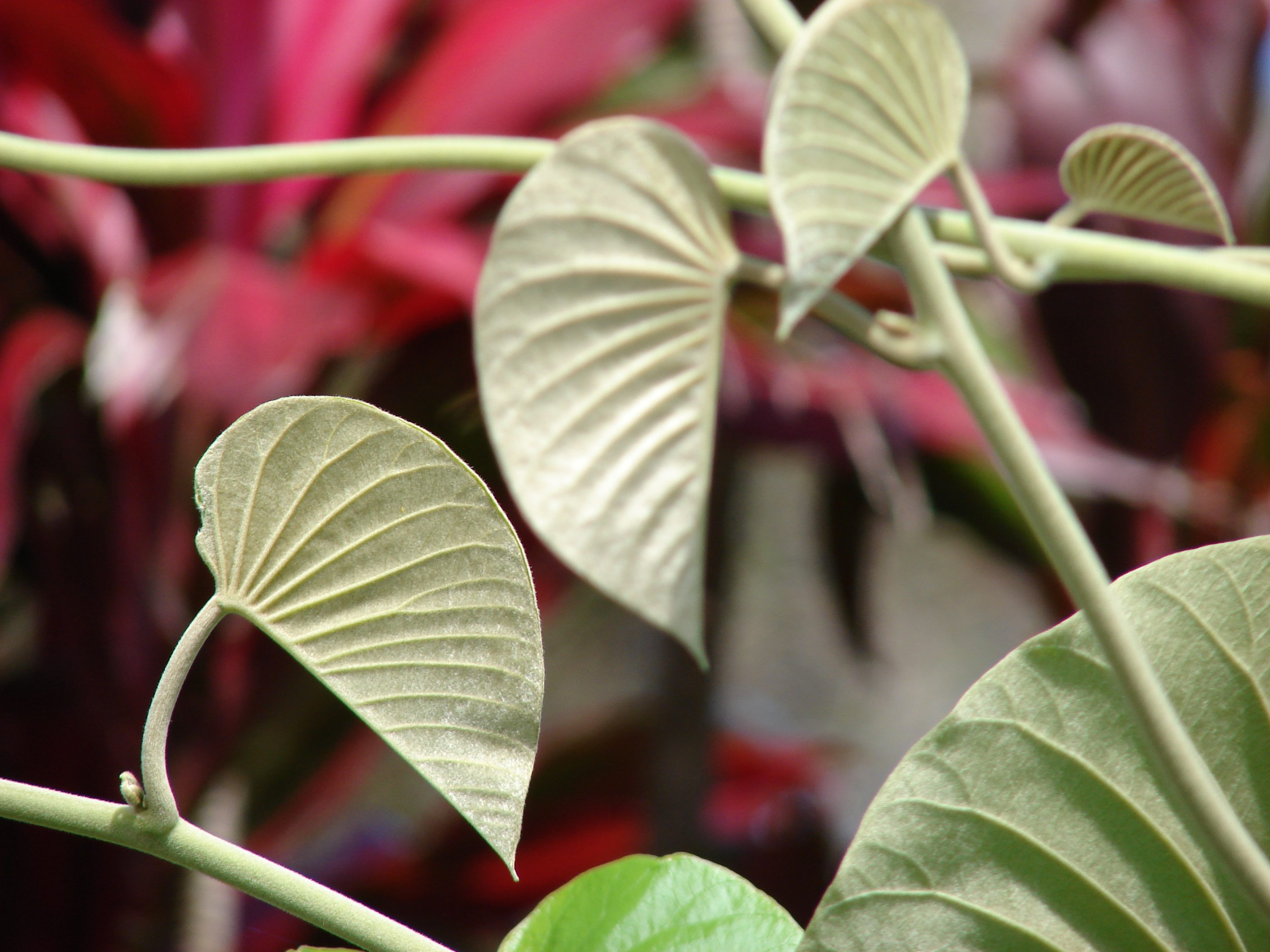 Argyreia nervosa (leaves). Location: Maui, Huelo